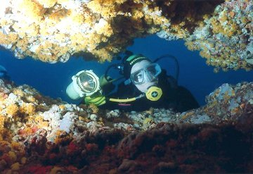 Diver in Falco Cave Alghero